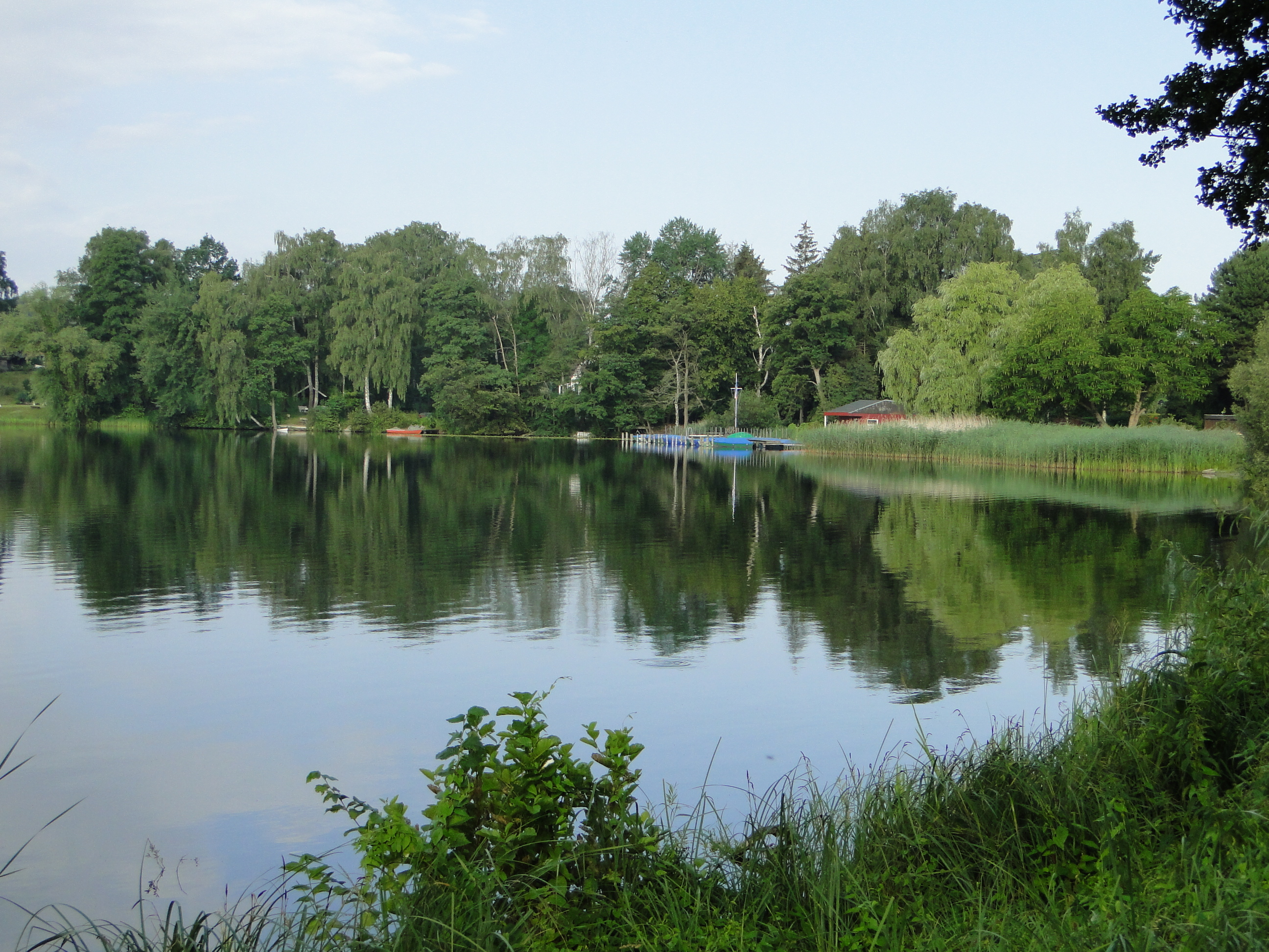 Lake Salemer See in Salem, disctrict Herzogtum Lauenburg, Schleswig-Holstein, Germany